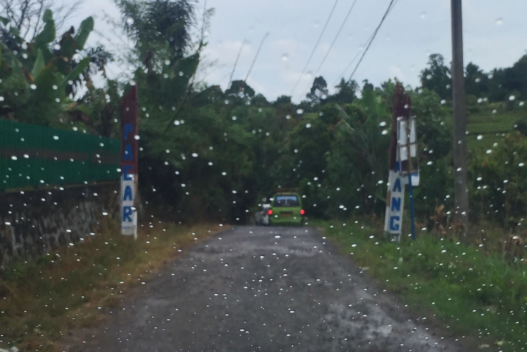 Welcome Gate to Pagar Pinang, Jorlang Hataran, Simalungun